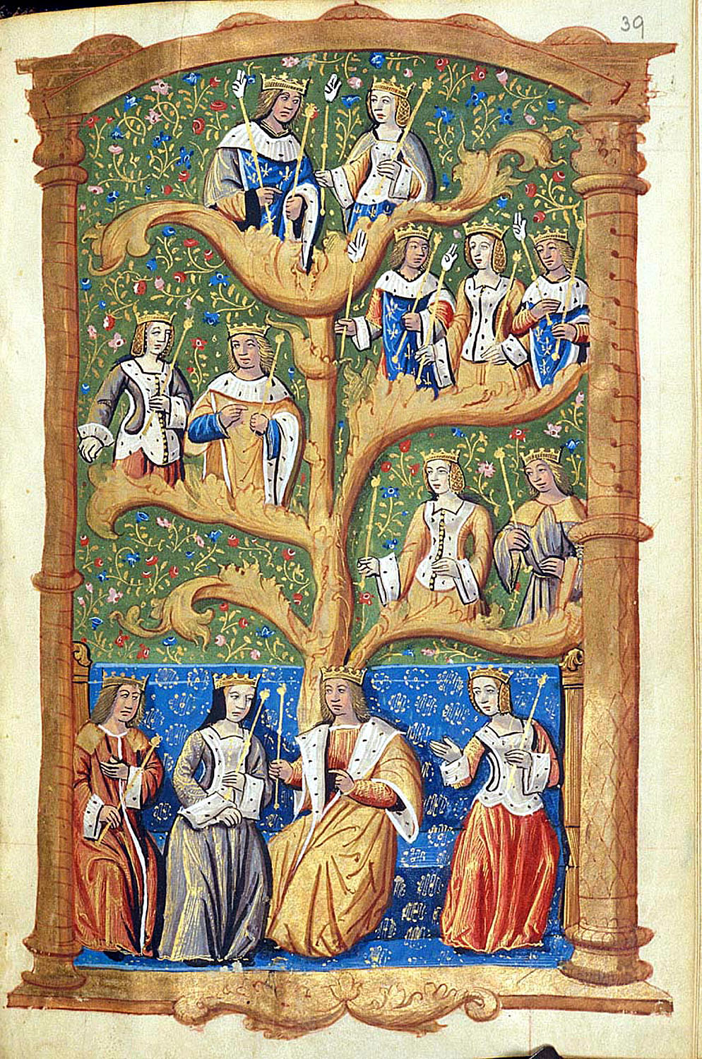 Le Sacre de Claude de France (Description of the coronation of Claude de France in Saint-Denis in 1517), 220 x 150 mm, illuminated tapestry, Stowe 582, f. 39. (further information in